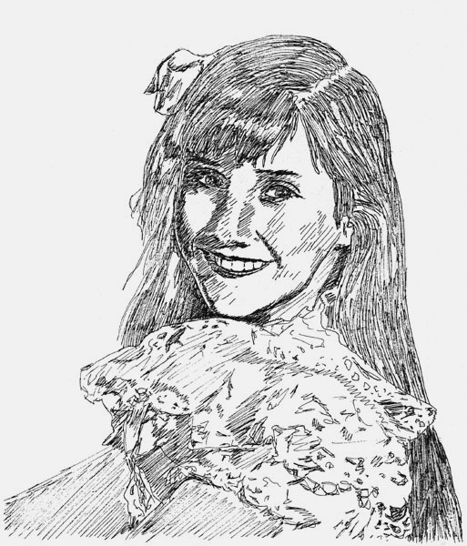 illustration of Pamelyn Ferdin, circa 1972, by Rob Craig